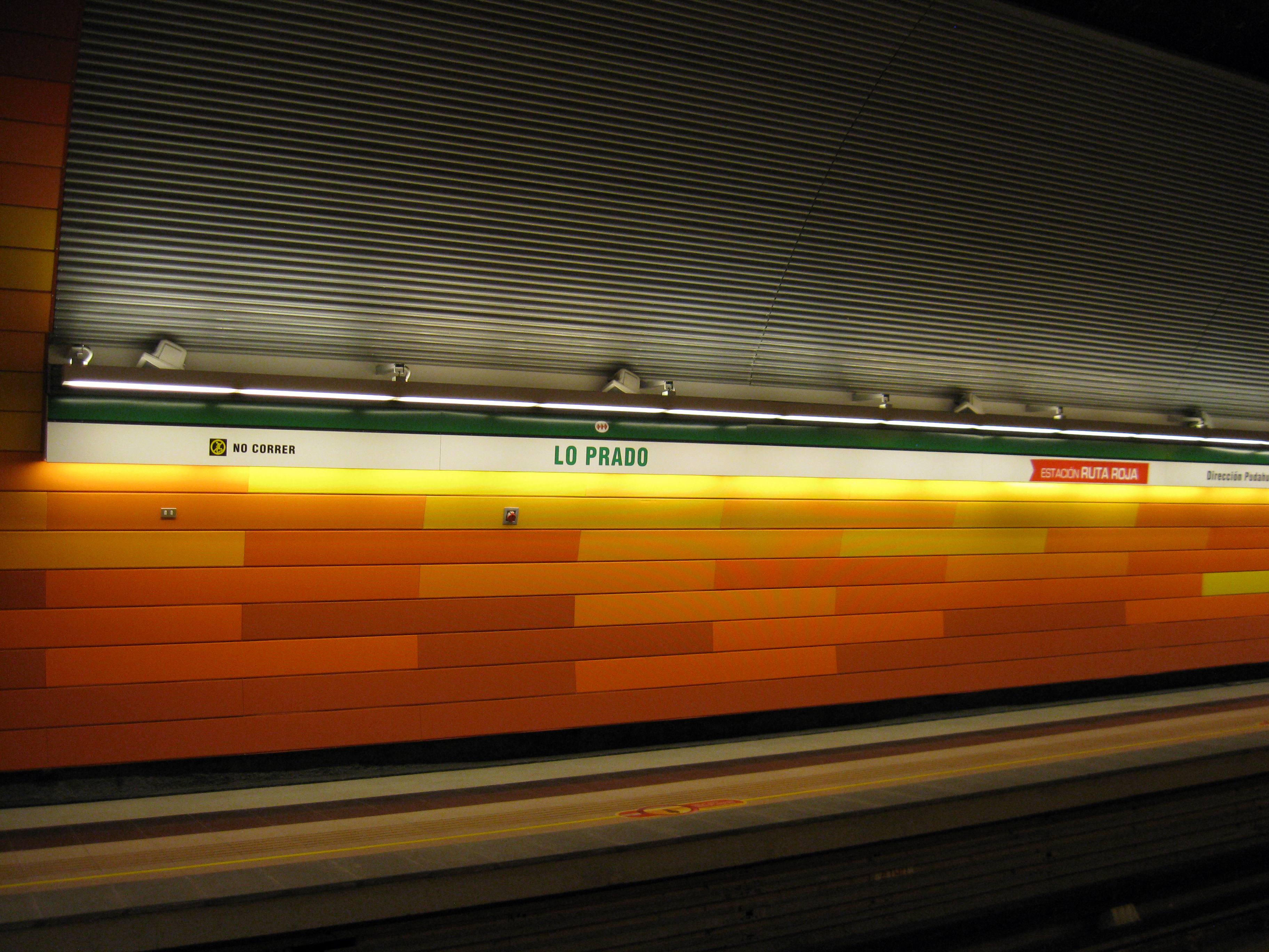 Lo Prado station, Line 5 - Santiago Metro